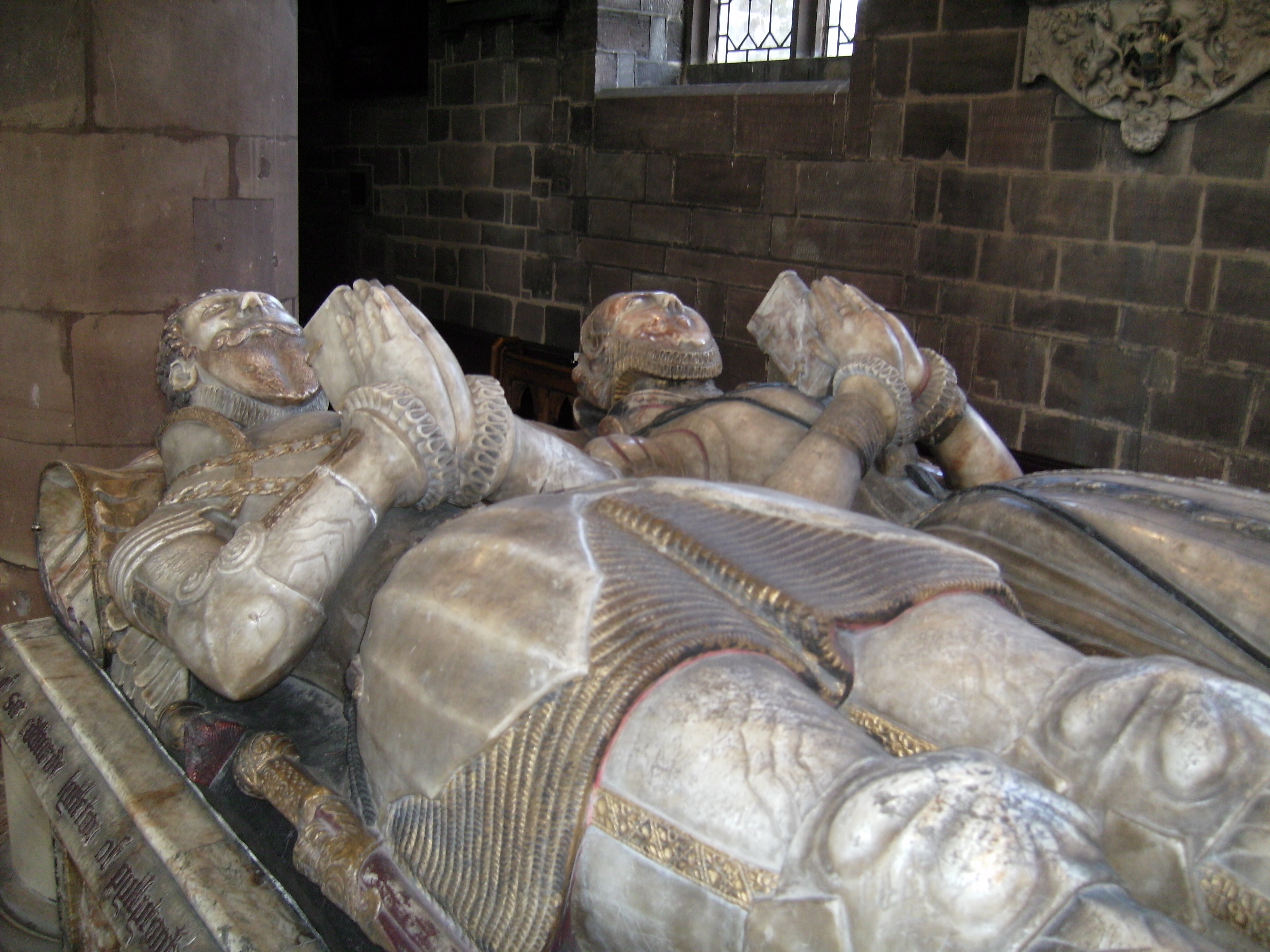 St. Michael and All Angels parish church, Penkridge, Staffordshire: tomb of Sir Edward Littleton (died 1574) and his wife, Alice Cockayne. Attributed to the Royley workshop in Burton on Trent.